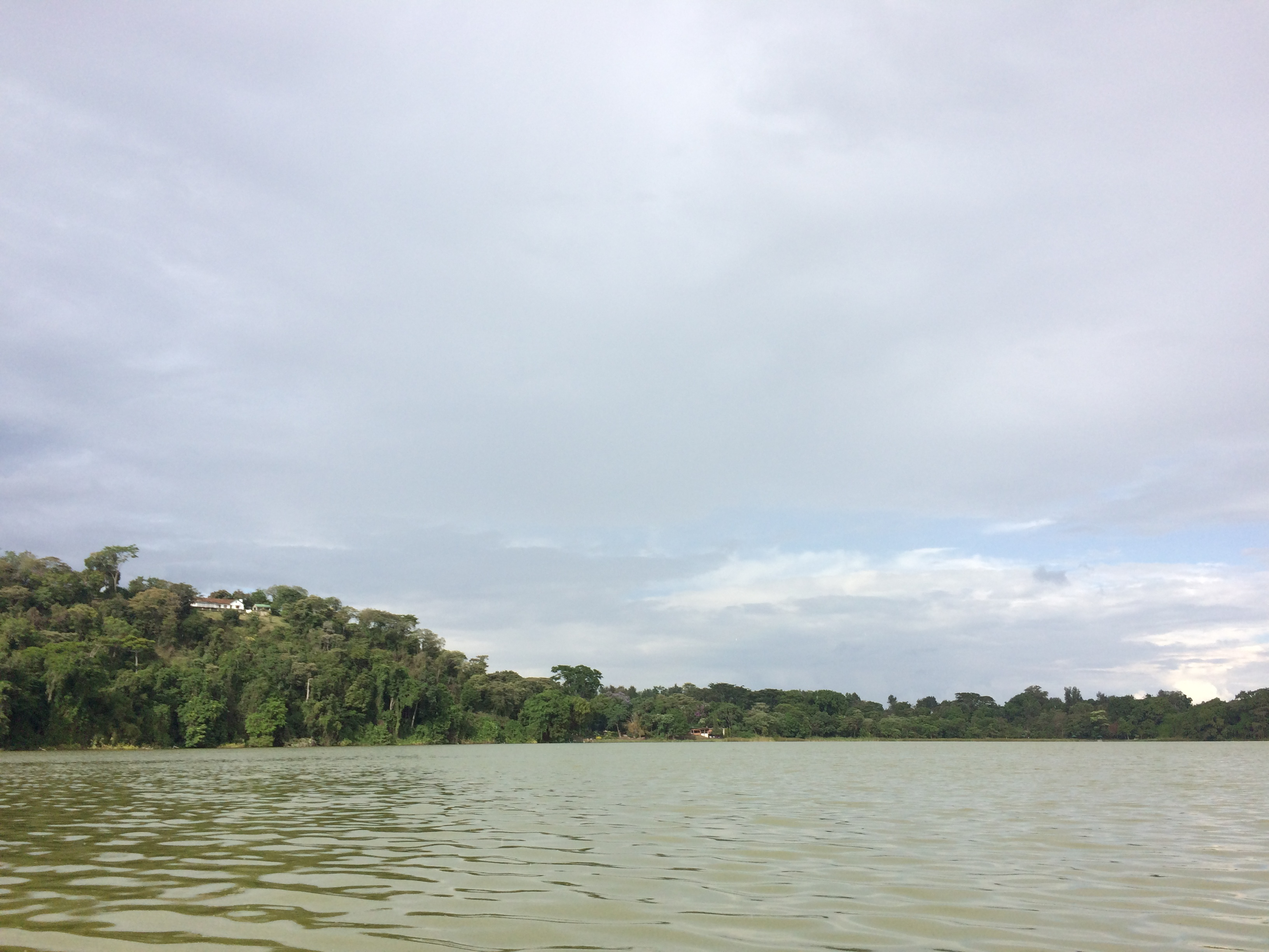 The lake have beautiful view